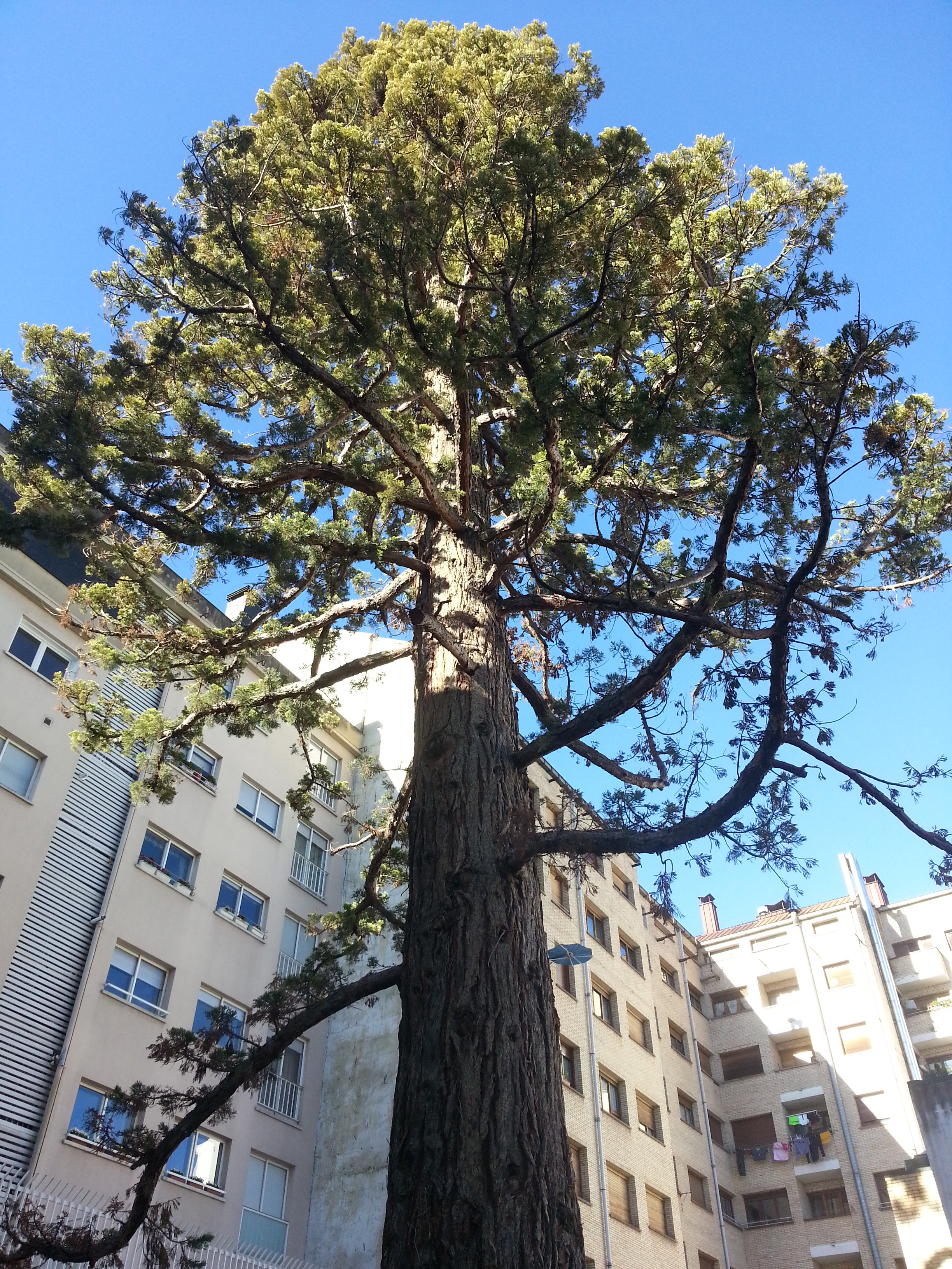 The Great Secuoya picture taken from downwards.